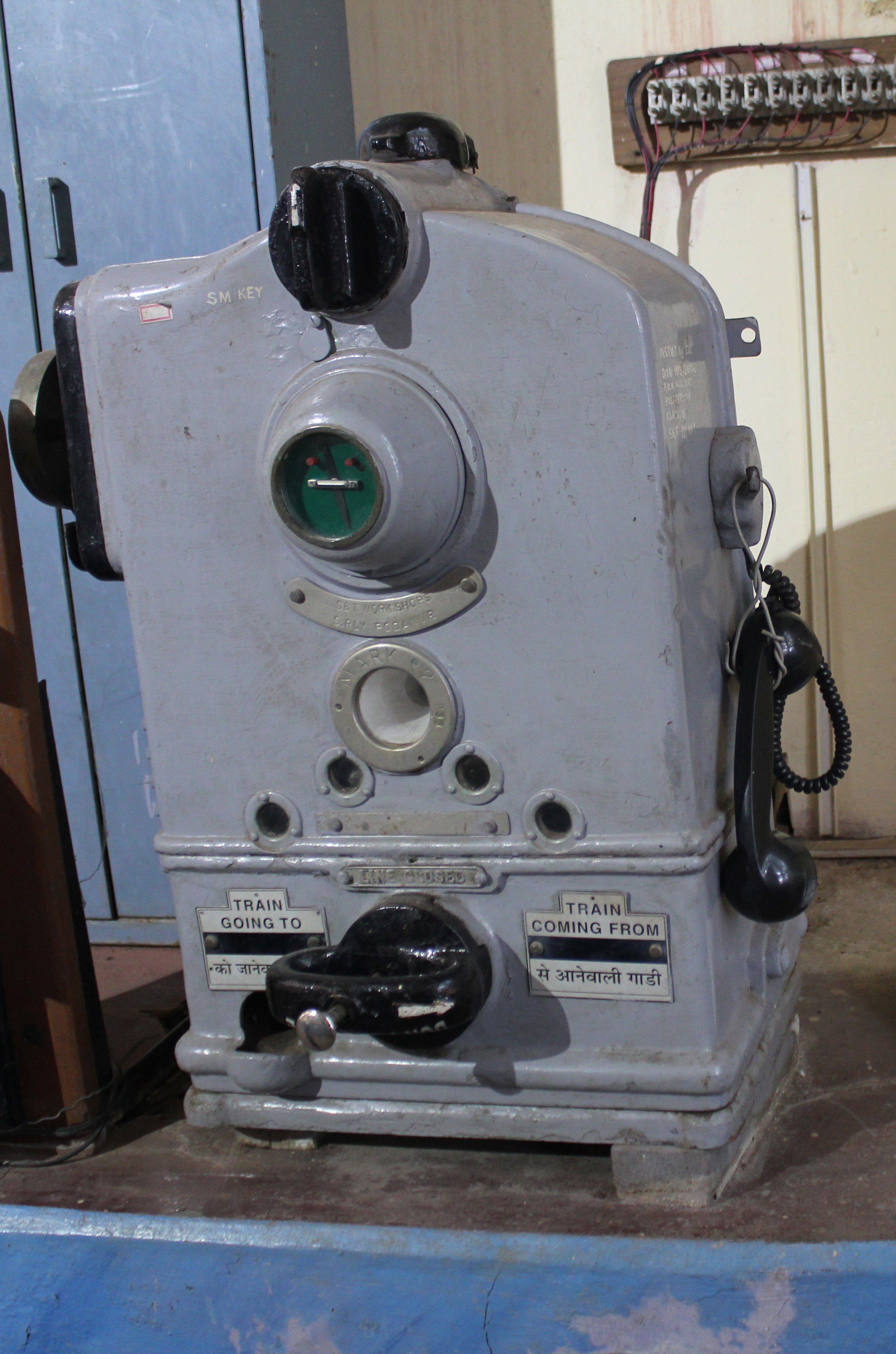 It is the equipment used by railways, in olden times, to generate tokens for transfering between two stations to ensure that only one train is on the track between those stations at any time.